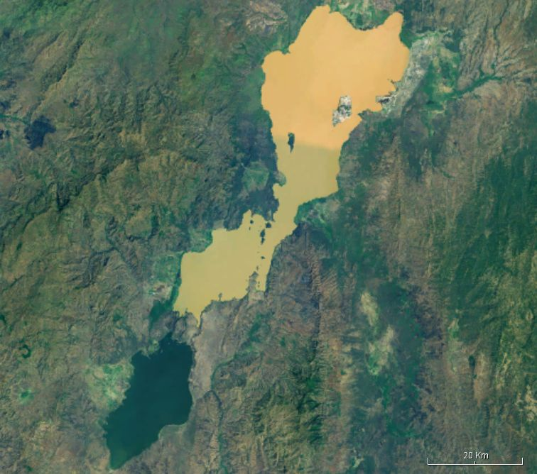 Lake Abaja and Lake Chamo